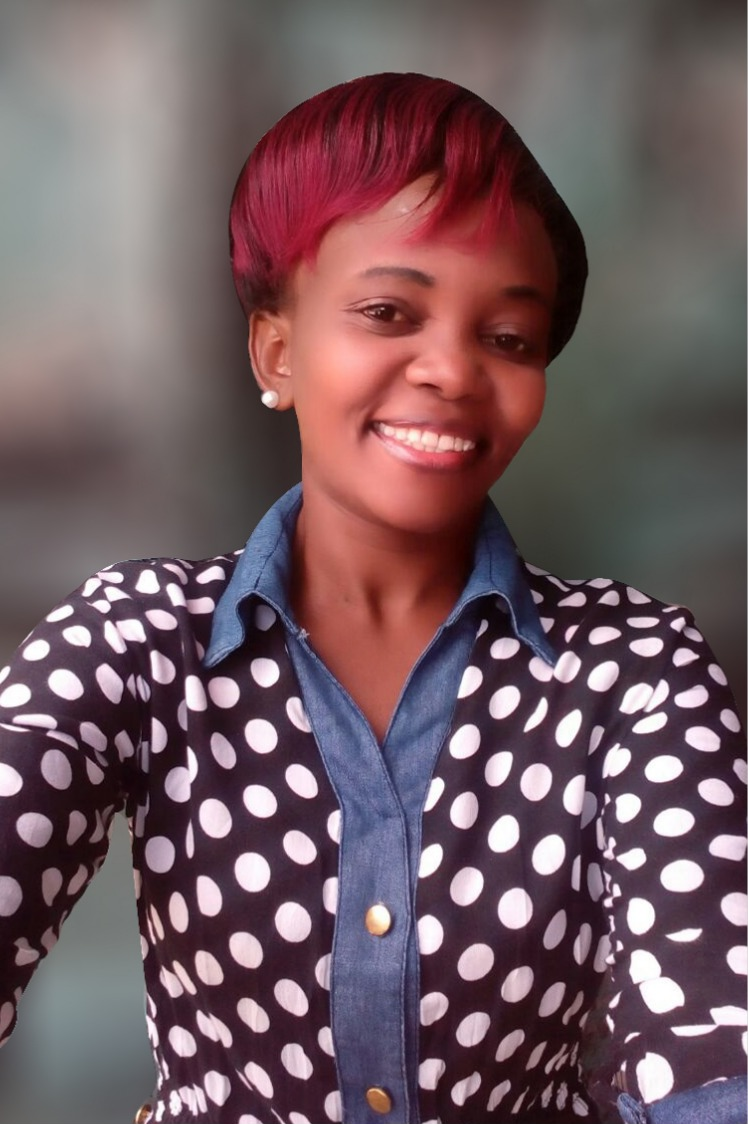 Caroline Mwatha Ochieng (born 1981; died 7 February 2019) Kenyan human rights activist